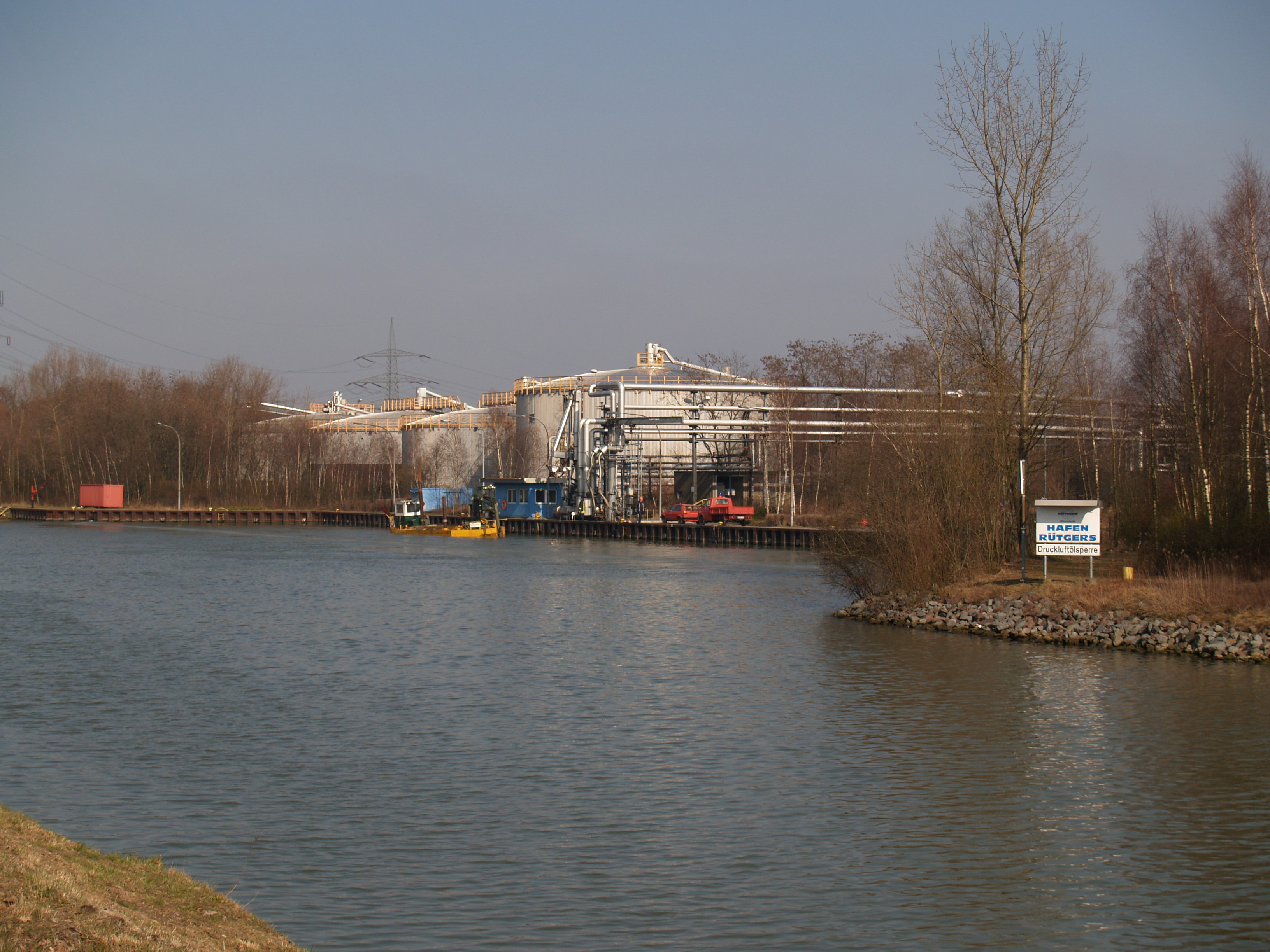 Port Ruetgers at Rhein-Herne-Kanal